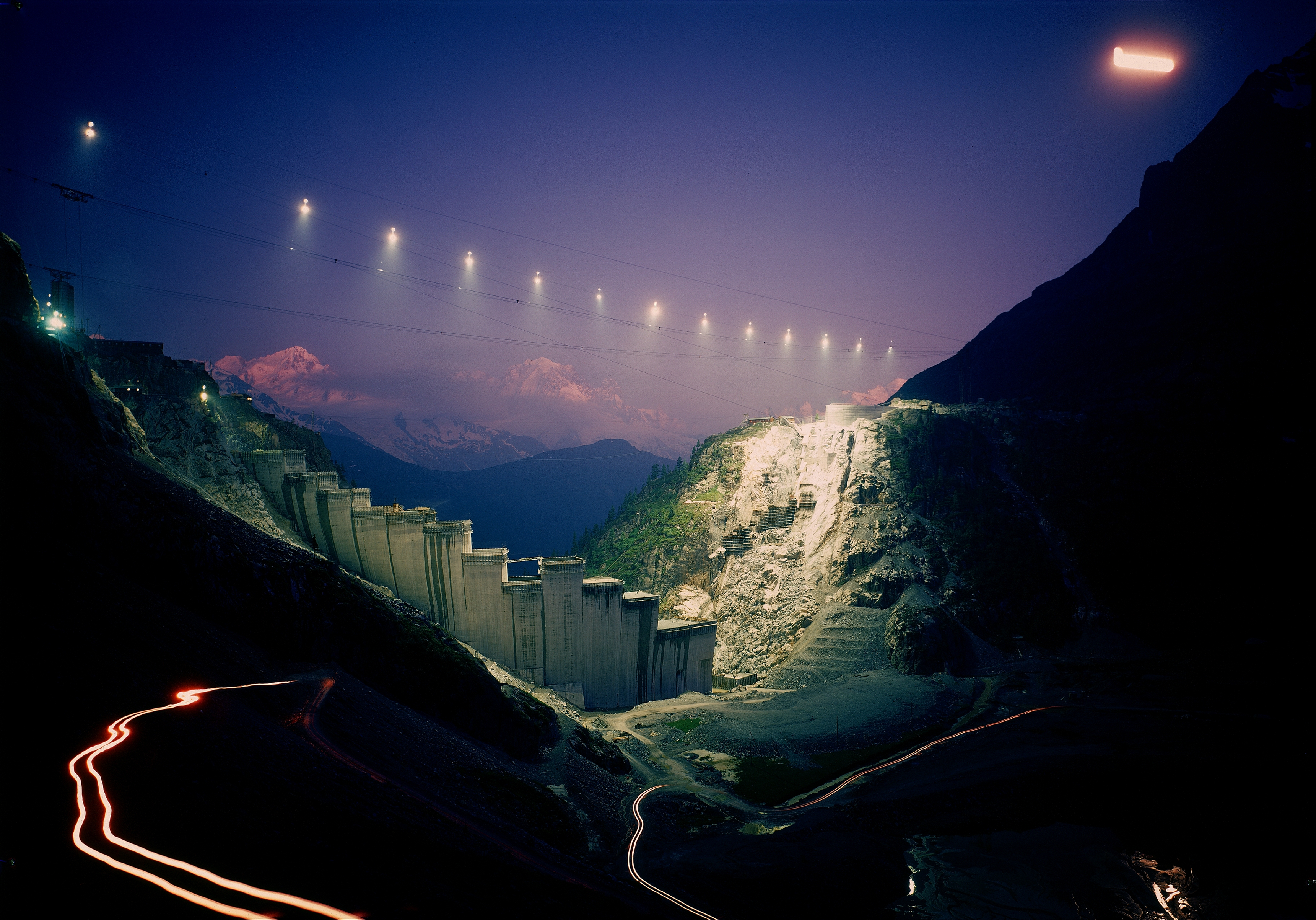 Night shot from the construction of the new Émosson dam, 1971. Looking south over the illuminated construction site to Aiguille Verte and Mont Blanc.